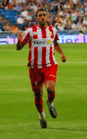 Argentinian football player Hernán Pellerano while playing for UD Almería